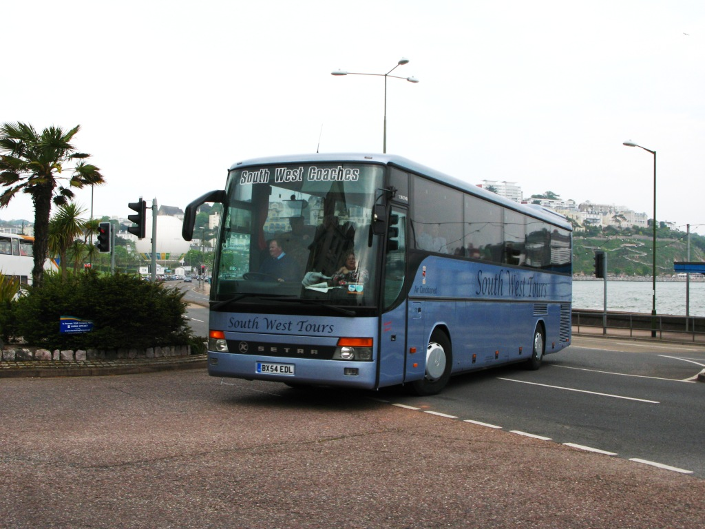 A Setra S315GT-HD turns off the sea front in Torquay. BX54EDL was new to Redwing Coaches in 2005 but in 2011 was operated by South West Coaches of Wincanton.